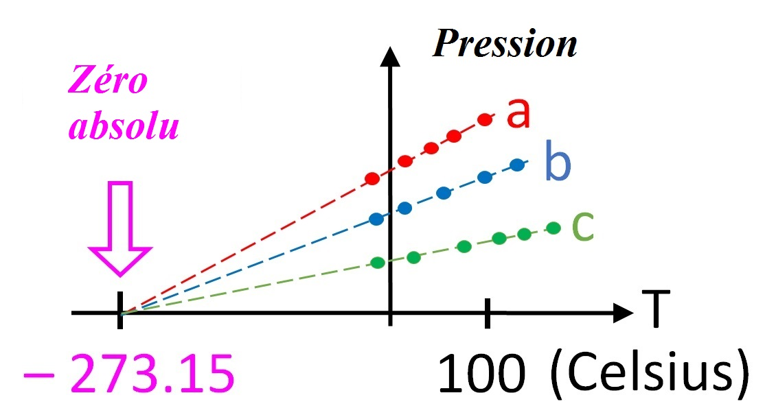 Plots of pressure vs temperature for three different gas samples at the same volume extrapolate to absolute zero.